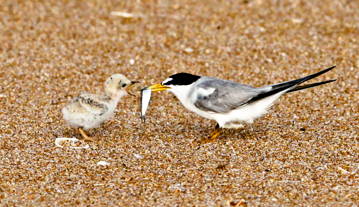 A Least Tern parent feeding a fish to a small chick near St Augustine, Florida, USA. The adult is in breeding colours.